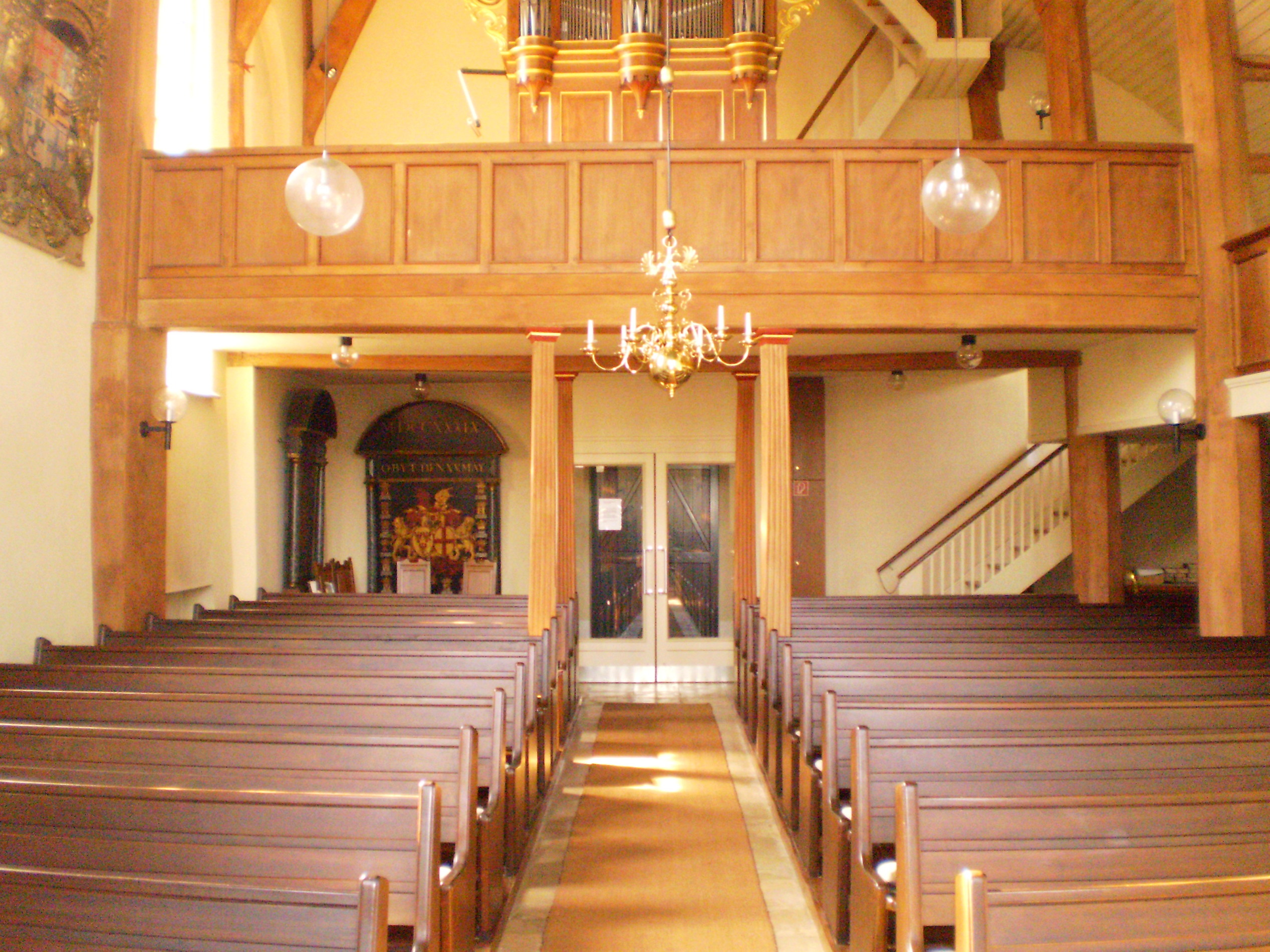 Interior of Protestant Church in Werth, North Rhine-Westphalia, D